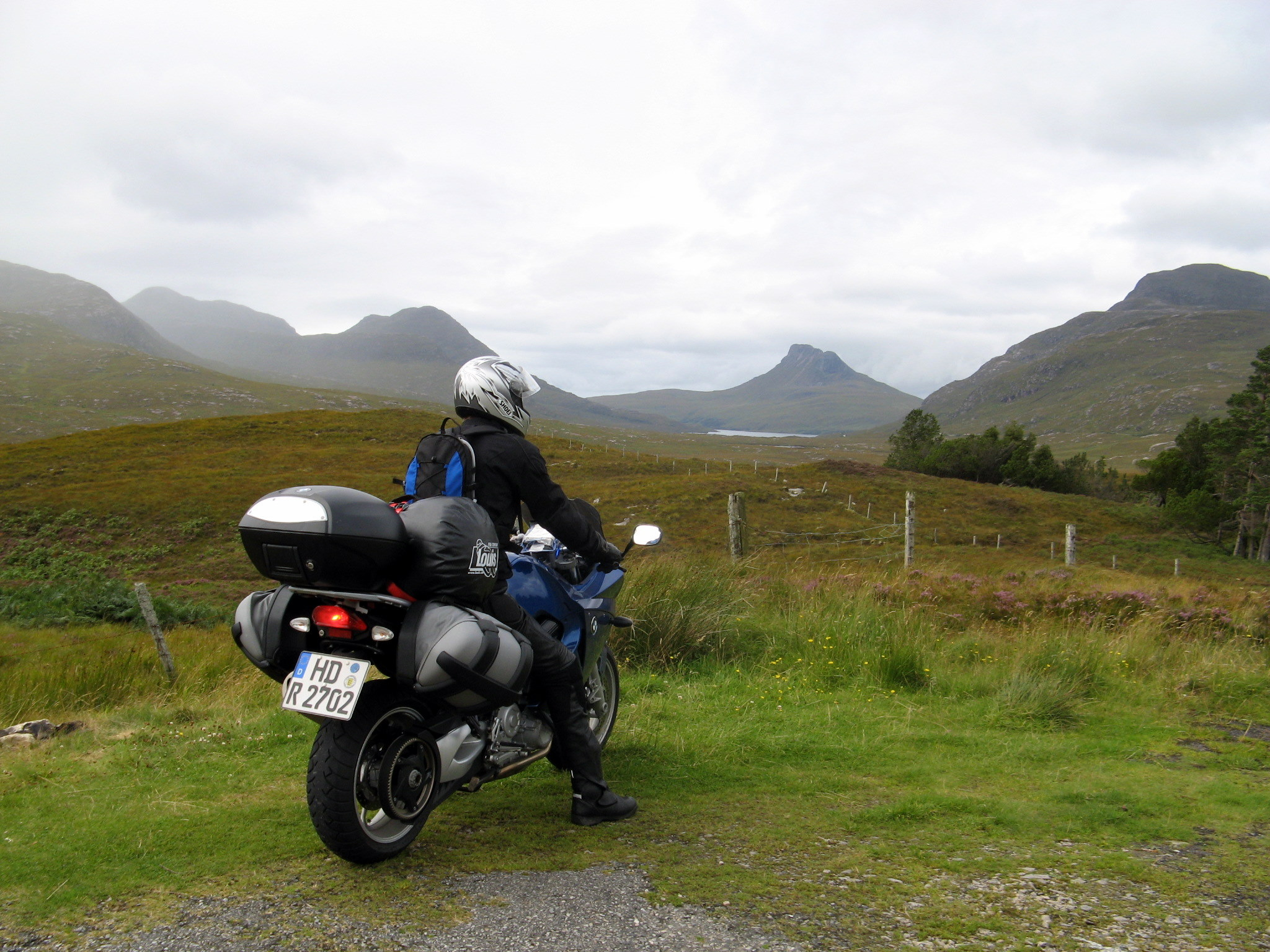 Holiday